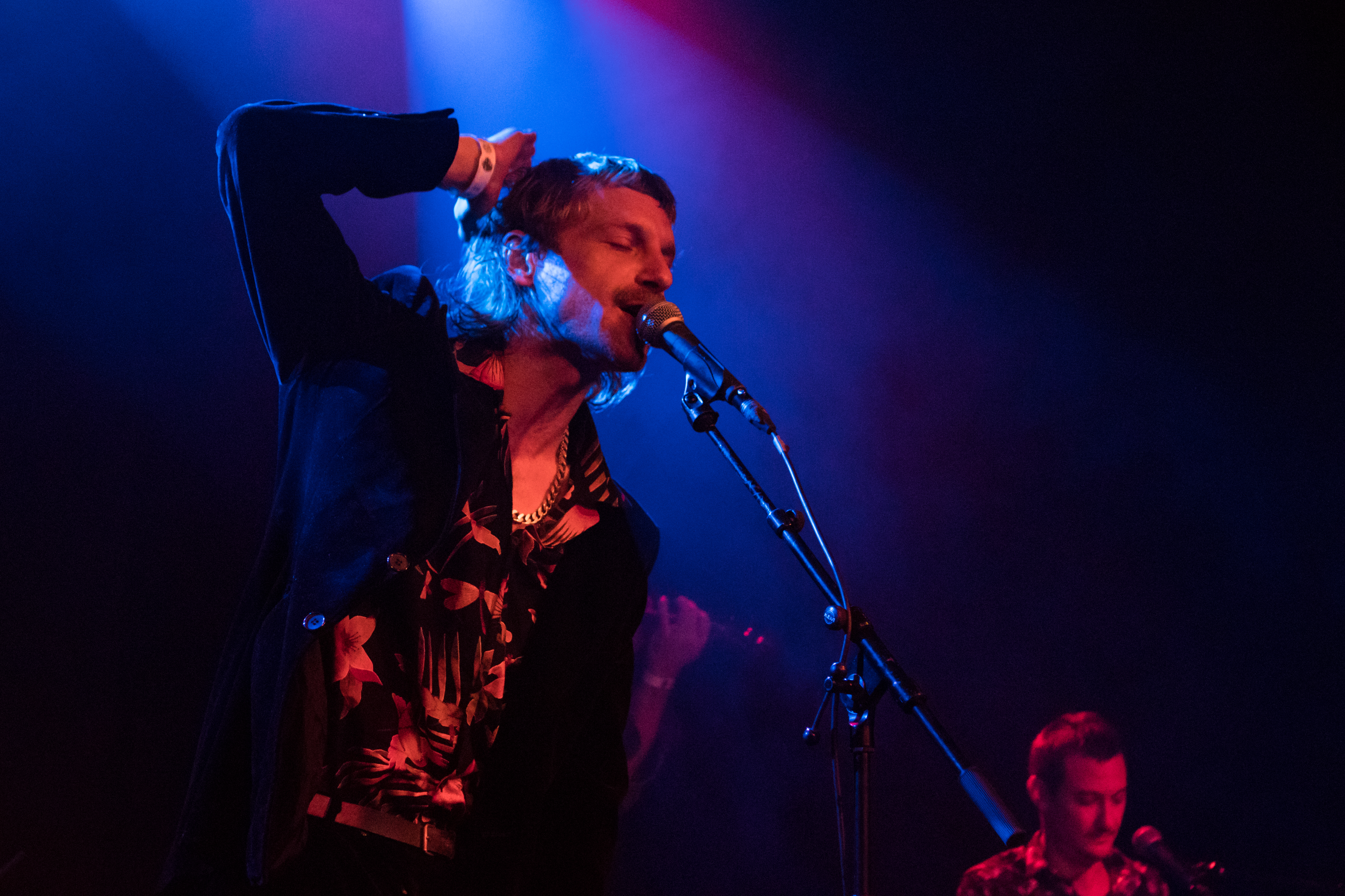 Voodoo Jürgens at Way Back When Festival 2017 in Dortmund